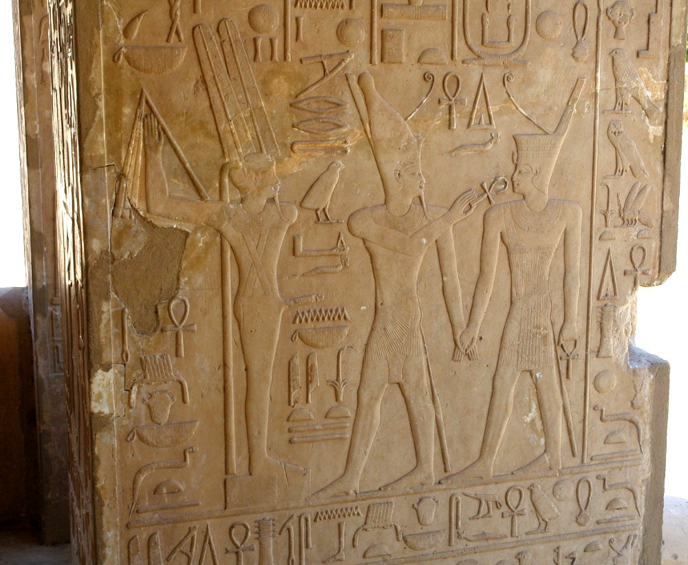 White Chapel (Chapelle blanche) of Sesostris I. at Karnak, 12th Dynasty, Open Air Museum Karnak